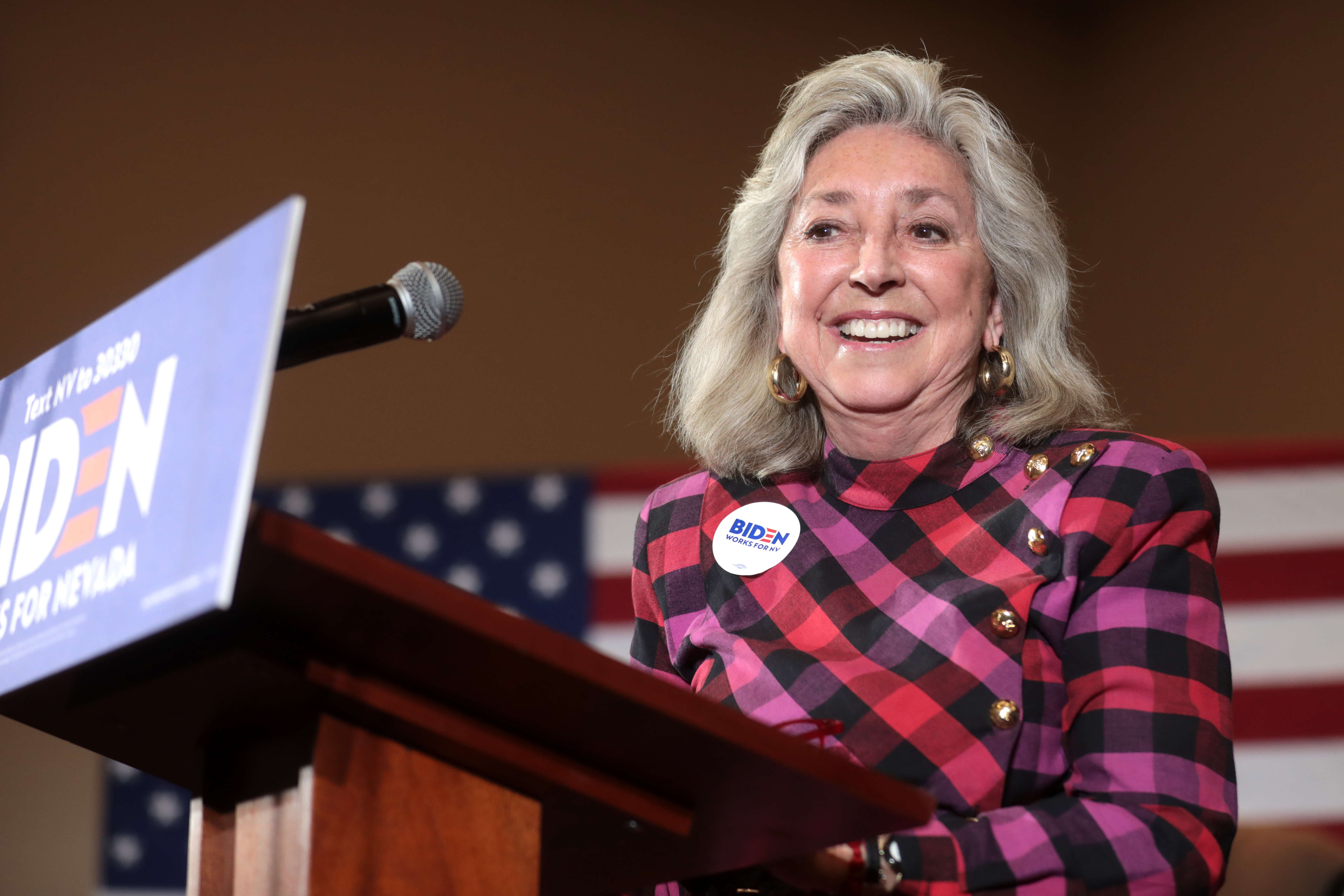 U.S. Congresswoman Dina Titus speaking with supporters of former Vice President of the United States Joe Biden at a community event at Sun City MacDonald Ranch in Henderson, Nevada.